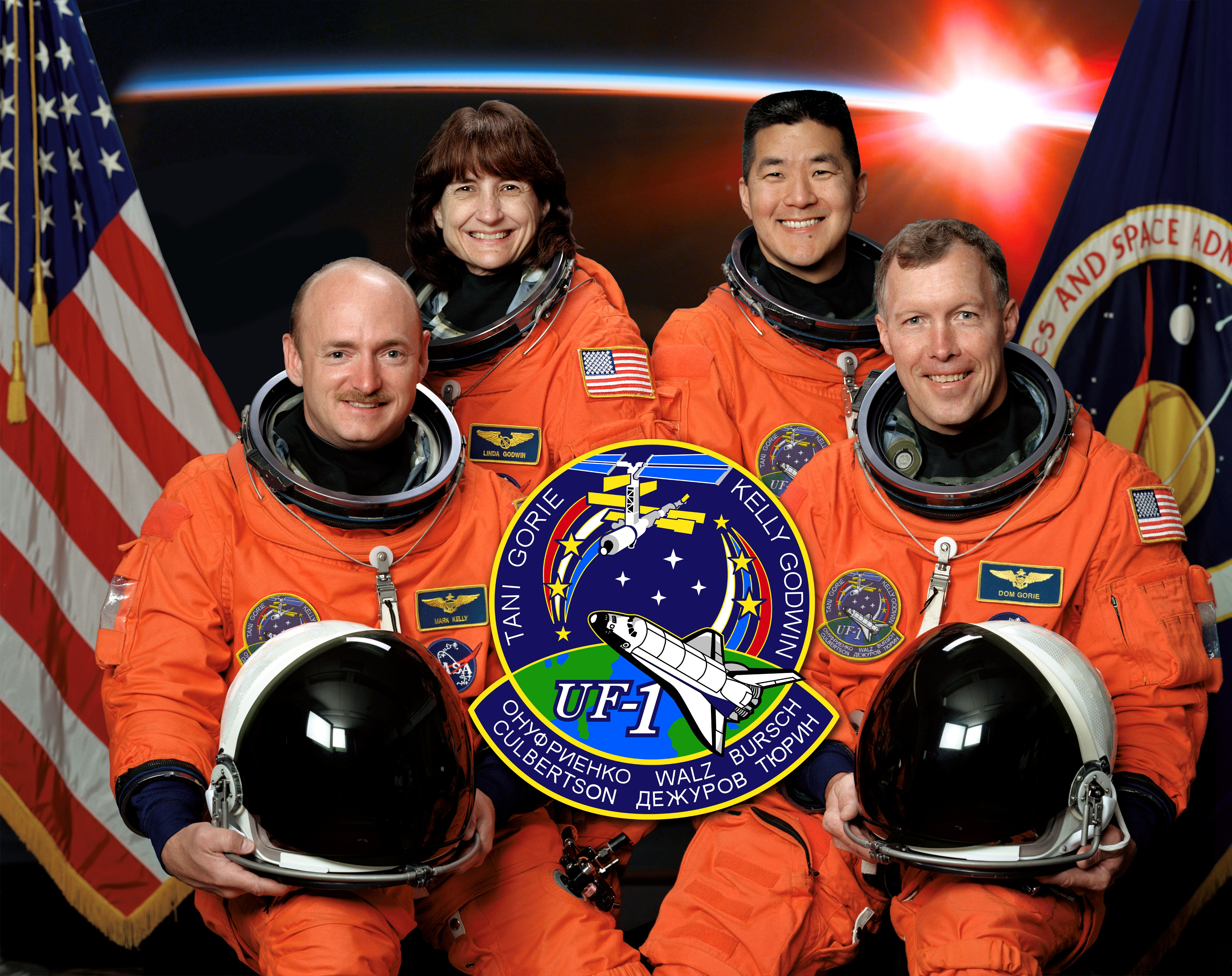 Main crew of Space Shuttle mission STS-108. Astronauts Dominic L. Gorie (right) and Mark E. Kelly, commander and pilot, respectively, are seated in front. In the rear are astronauts Linda M. Godwin and Daniel L. Tani, both mission specialists.